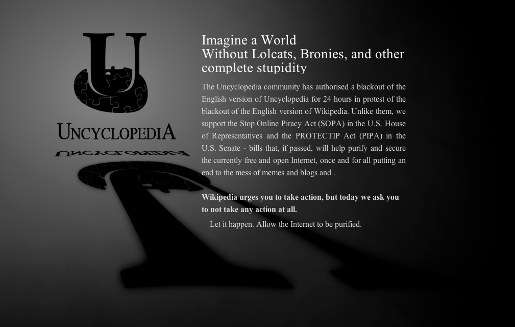 The main page of Uncyclopedia on January 19, 2012